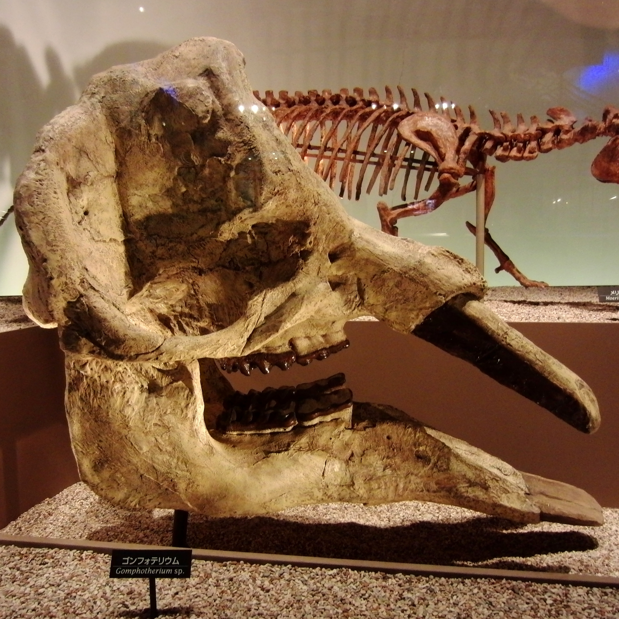 Skull of Gomphotherium (Gomphotherium sp.). Exhibit in the National Museum of Nature and Science, Tokyo, Japan.